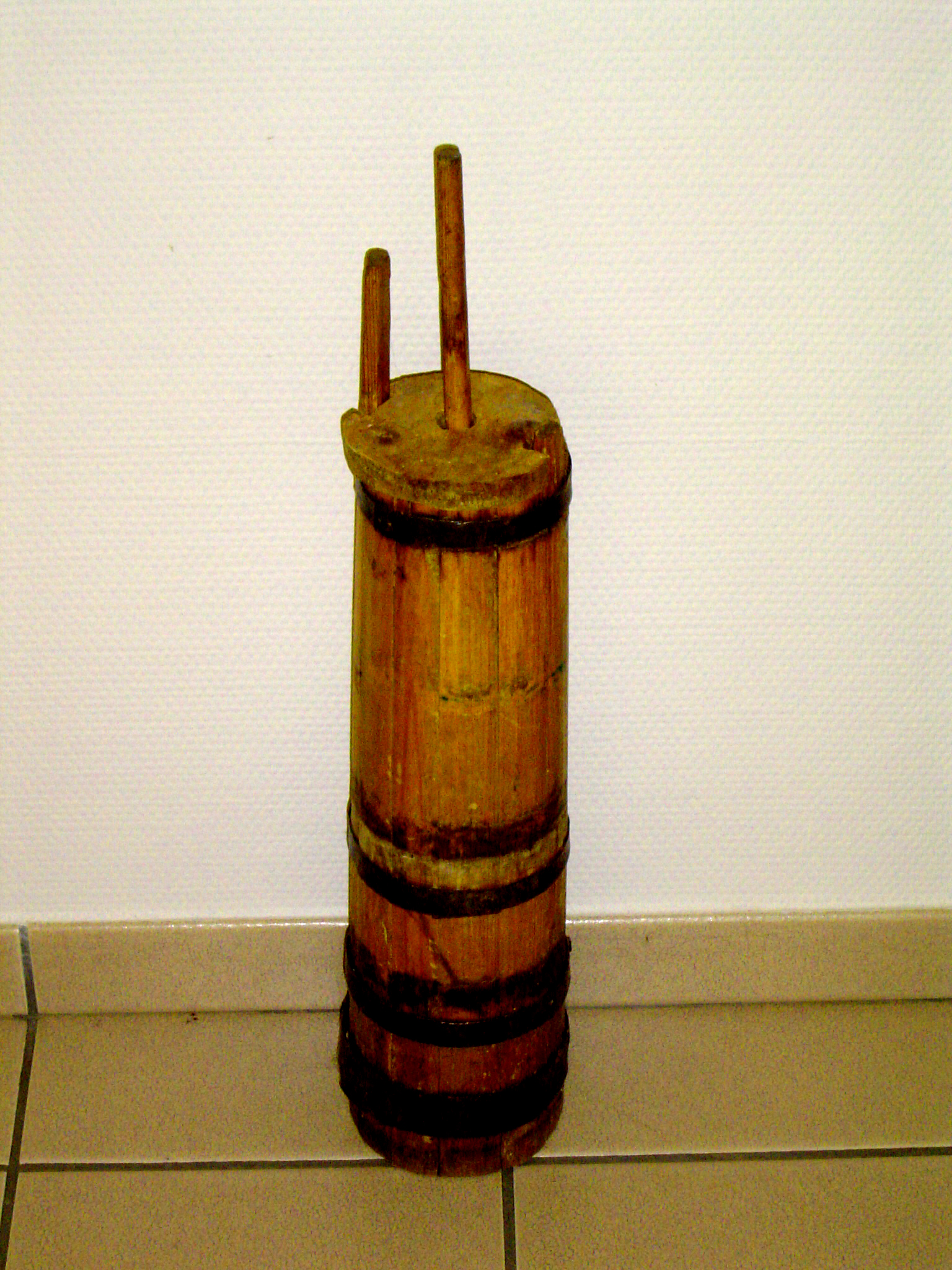 Vertical butter churn